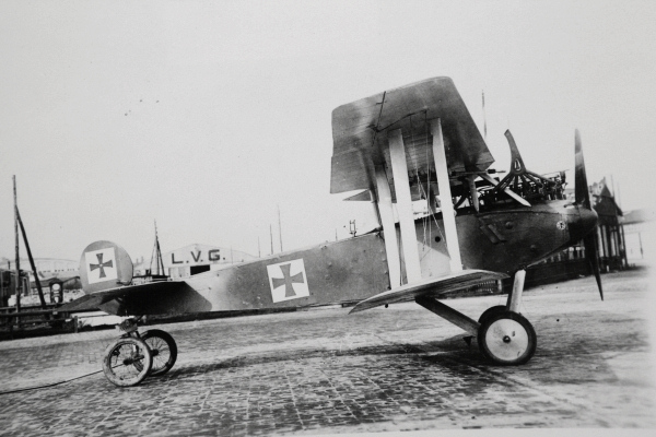 AGO C.IV side